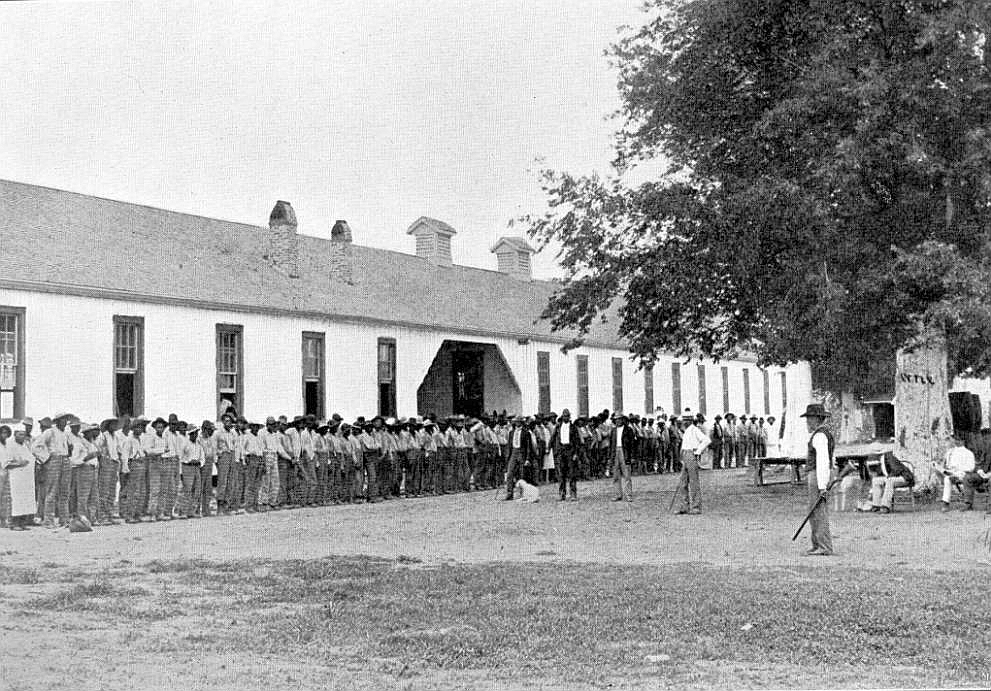 Quarters C at the Louisiana State Penitentiary.